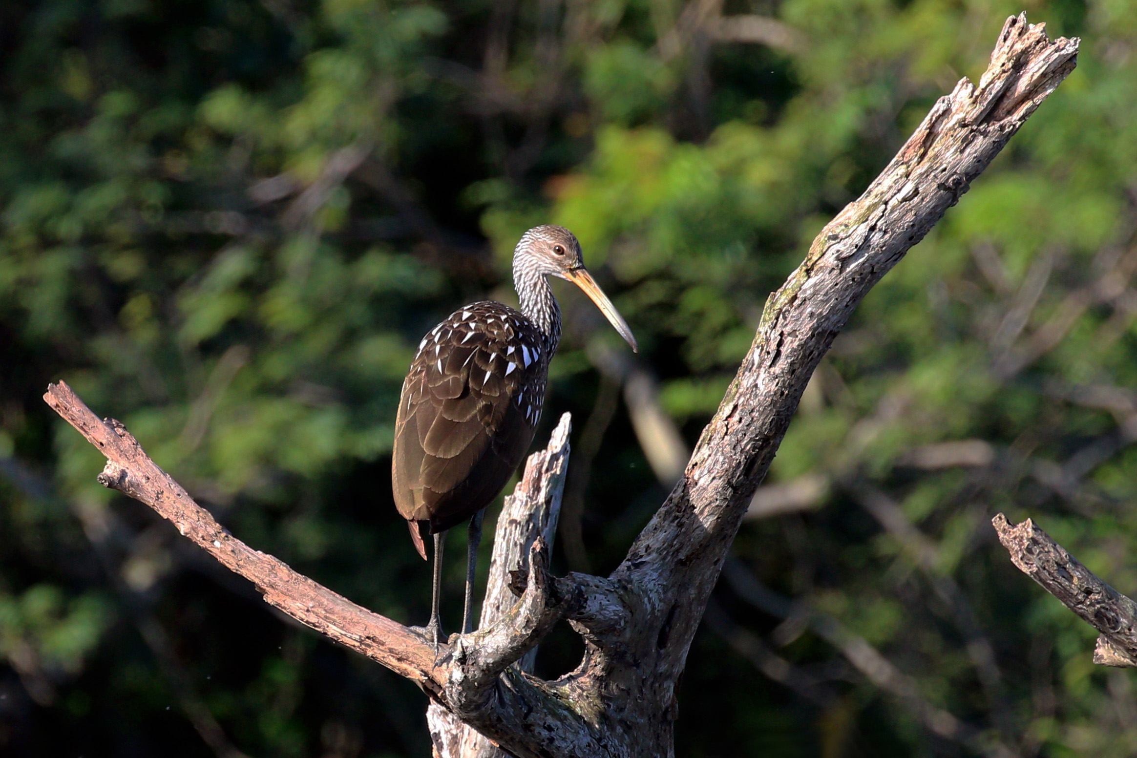 Limpkin (Aramus guarauna pictus), Cuba